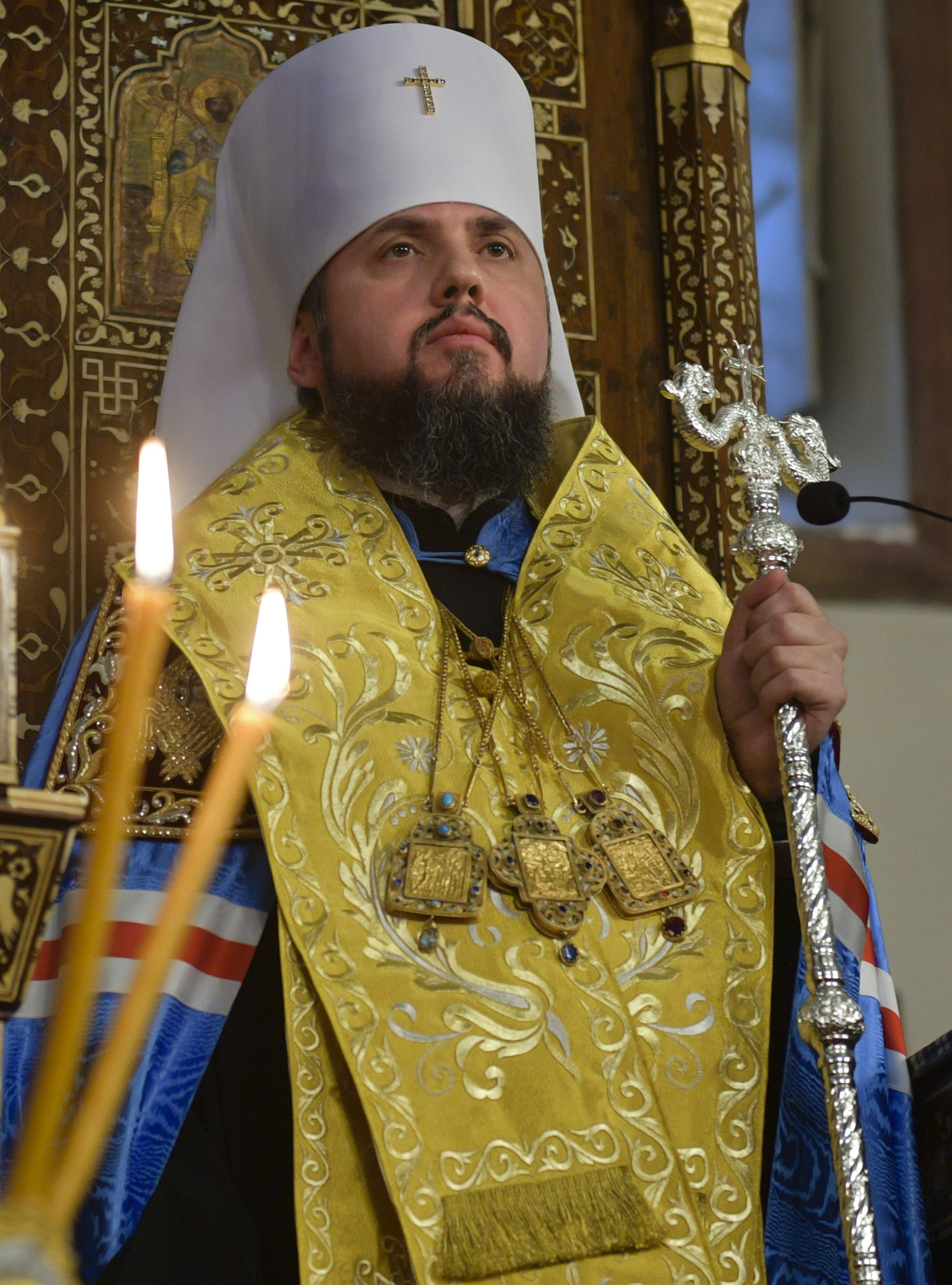 Epiphanius Dumenko at the signing of the tomos of autocephaly of the Orthodox Church of Ukraine on 5 January 2019 in Istanbul.